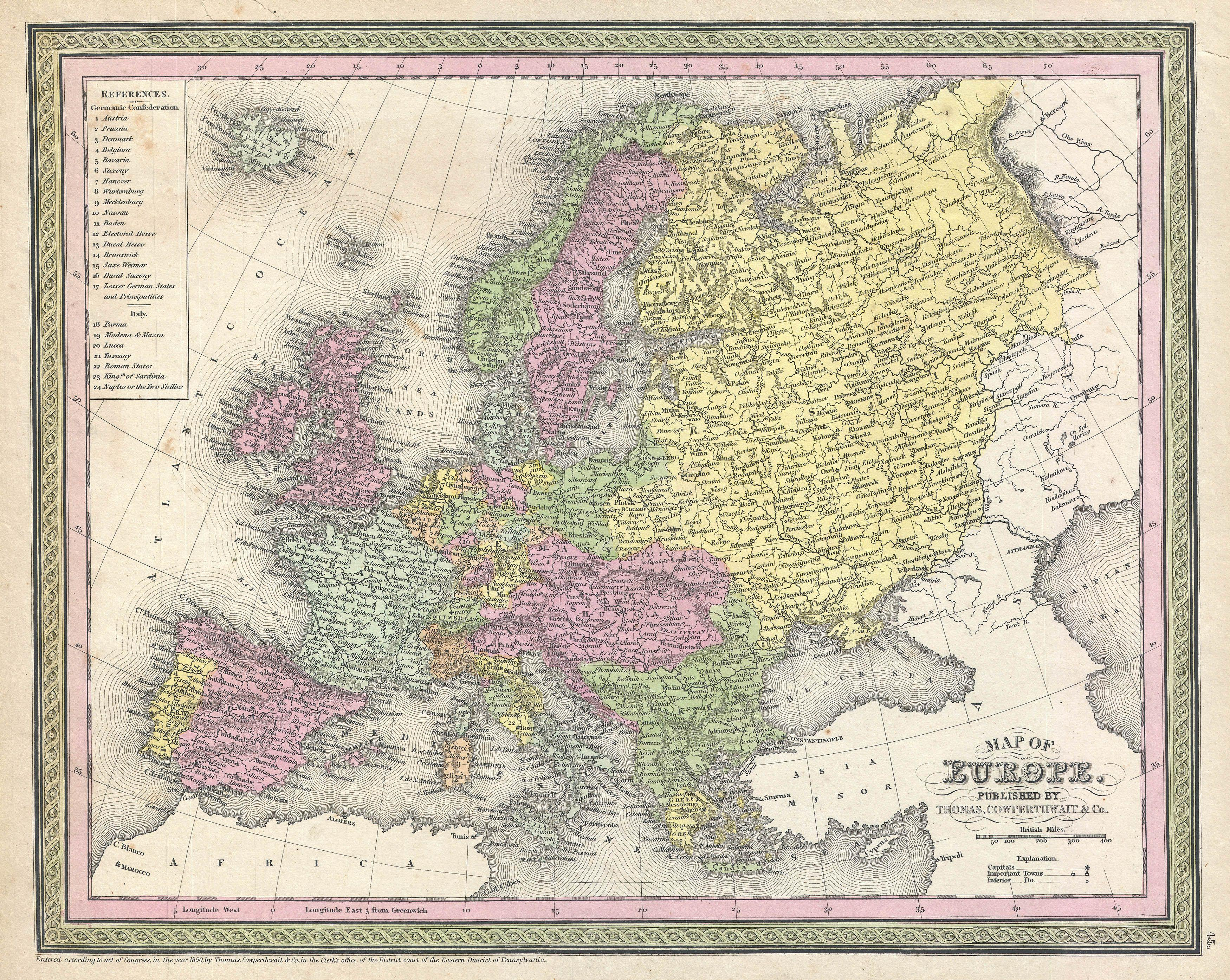 An attractive example of S. A. Mitchell Sr.’s 1850 map of Europe. Depicts the entire continent color coded according to individual countries. Surrounded by the green border common to Mitchell maps from the 1850s. Prepared by S. A. Mitchell for issued as plate no. 45 in the 1850 edition of his New Universal Atlas . Dated and copyrighted, “Entered according to act of Congress, in the year 1850, by Thomas Cowperthwait & Co., in the Clerks office of the District court of the Eastern District of Pennsylvania.